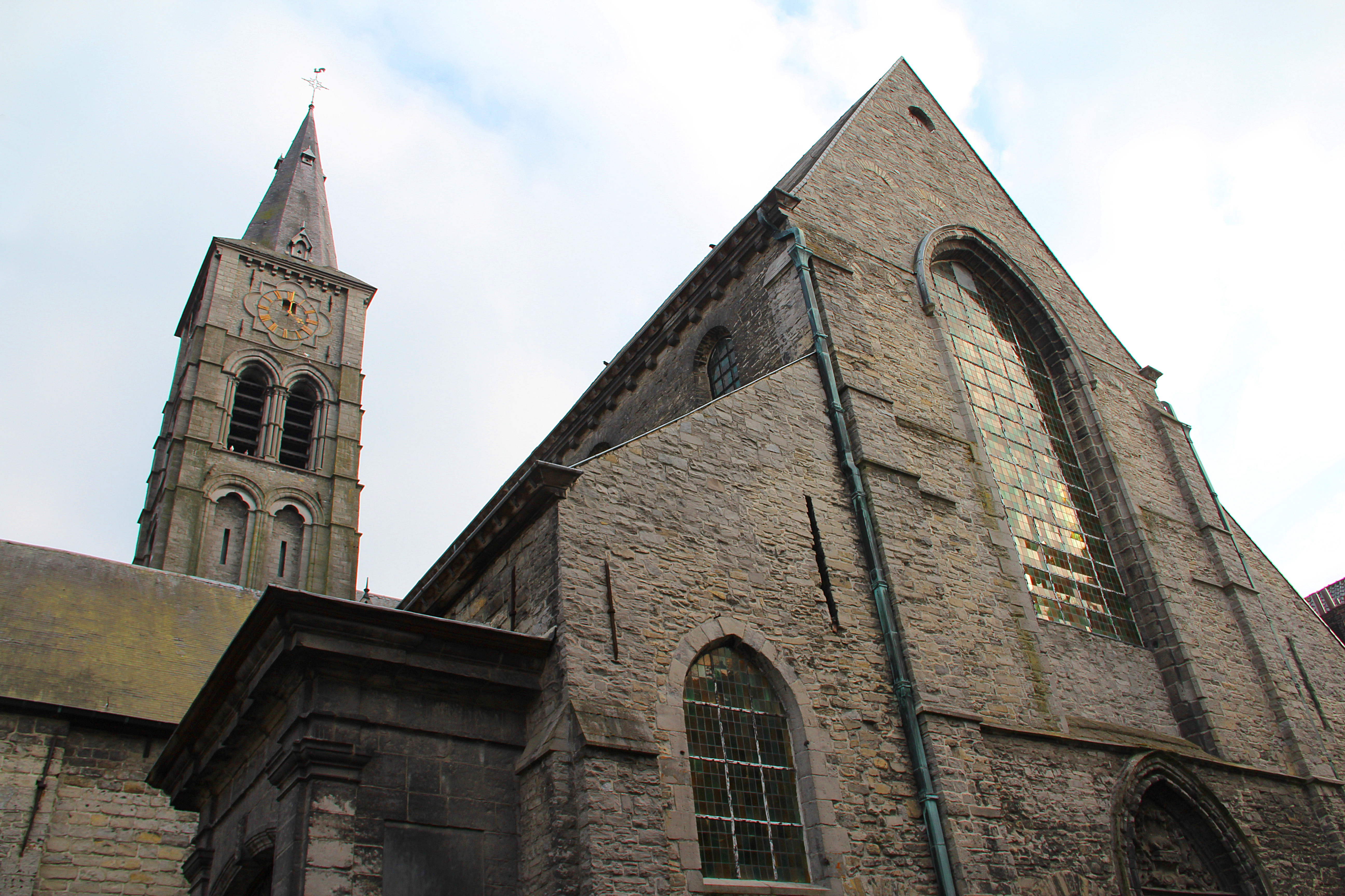 Tournai (Belgium), rue des Jésuites - The church of Saint Piat (XIIth century).